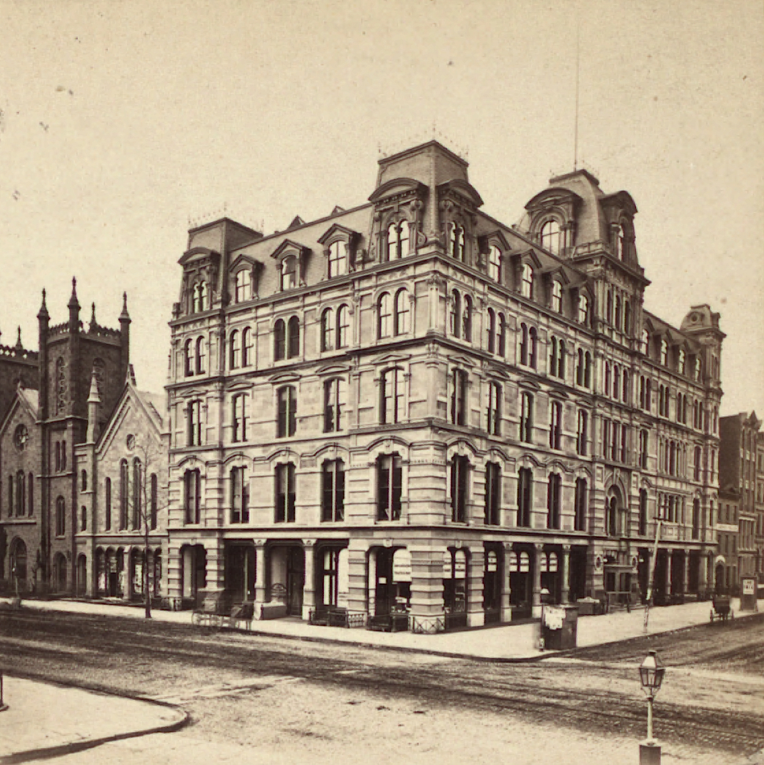 YMCA Building at southwest corner of 23rd Street and Fourth Avenue (now called Park Avenue South), New York City